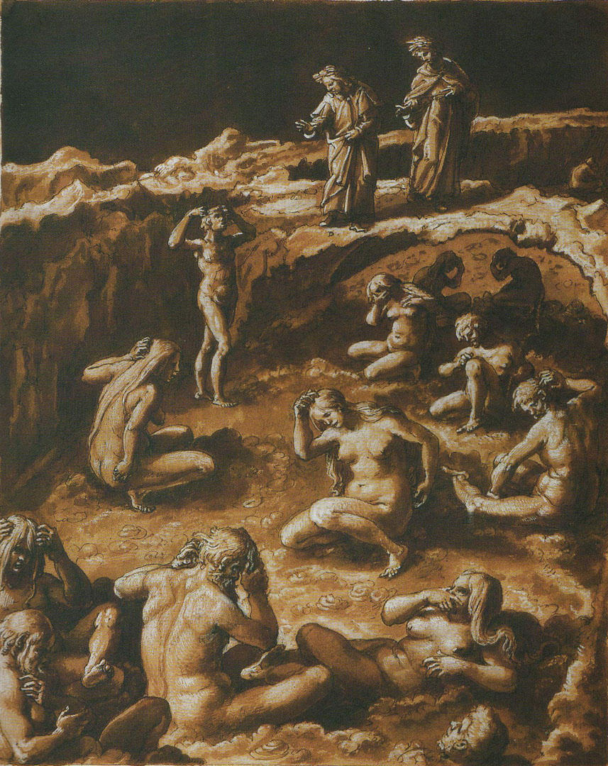 Illustration of Dante's Inferno, Canto 18